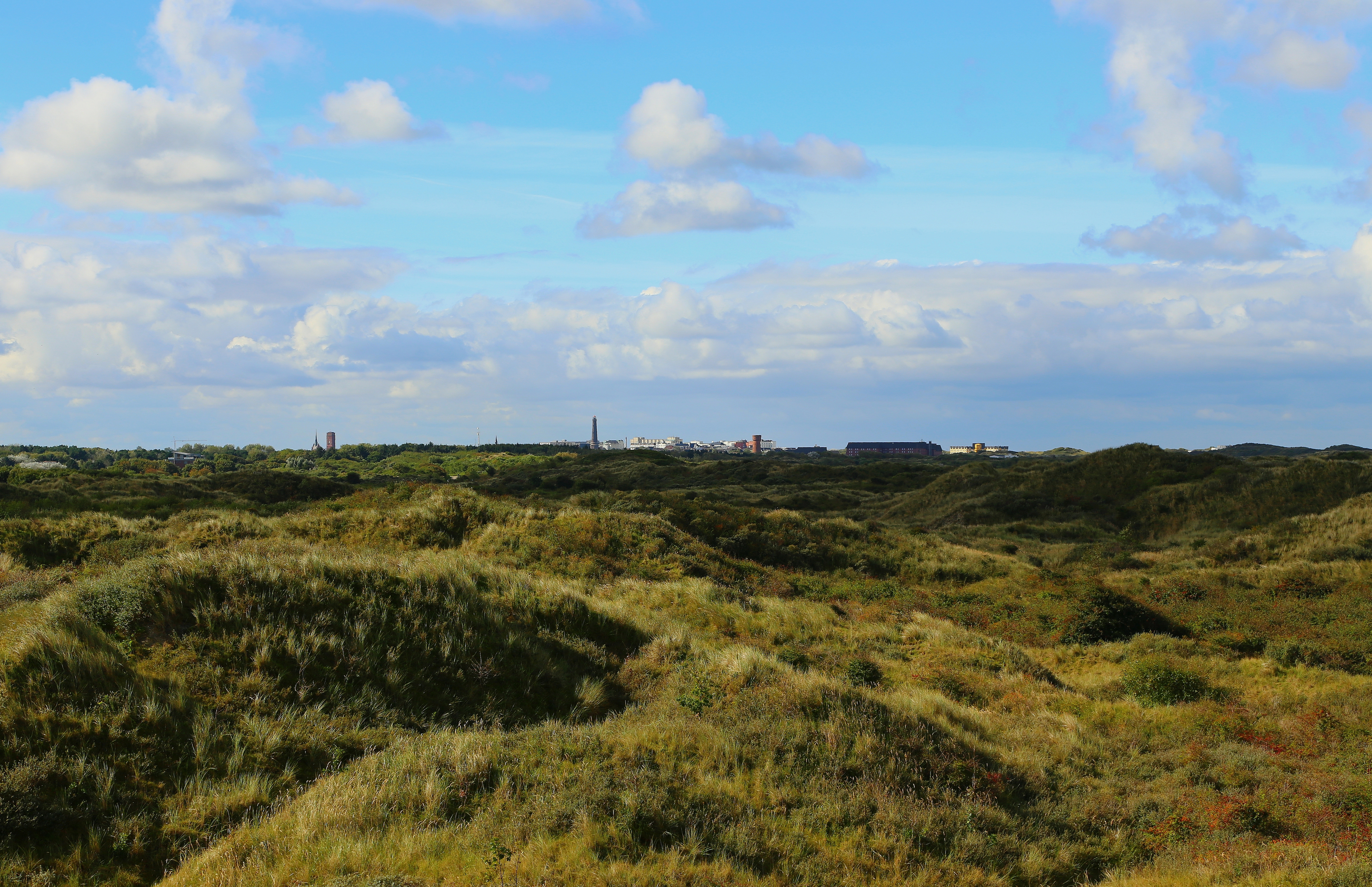 Dunes of Borkum, Landkreis Leer, Lower Saxony, Germany.